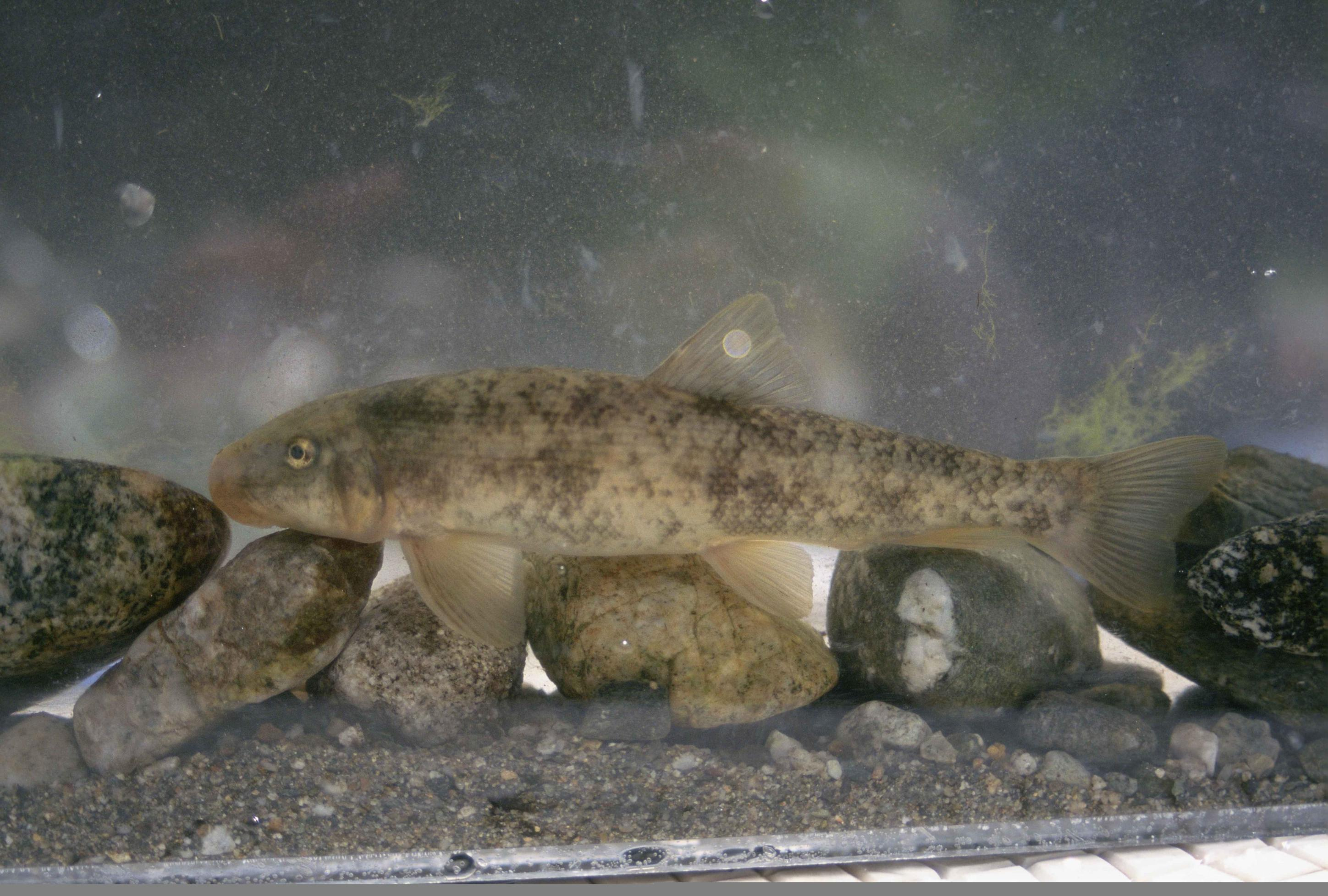 Image title: The Santa Ana sucker is a threatened fish species Image from Public domain images website